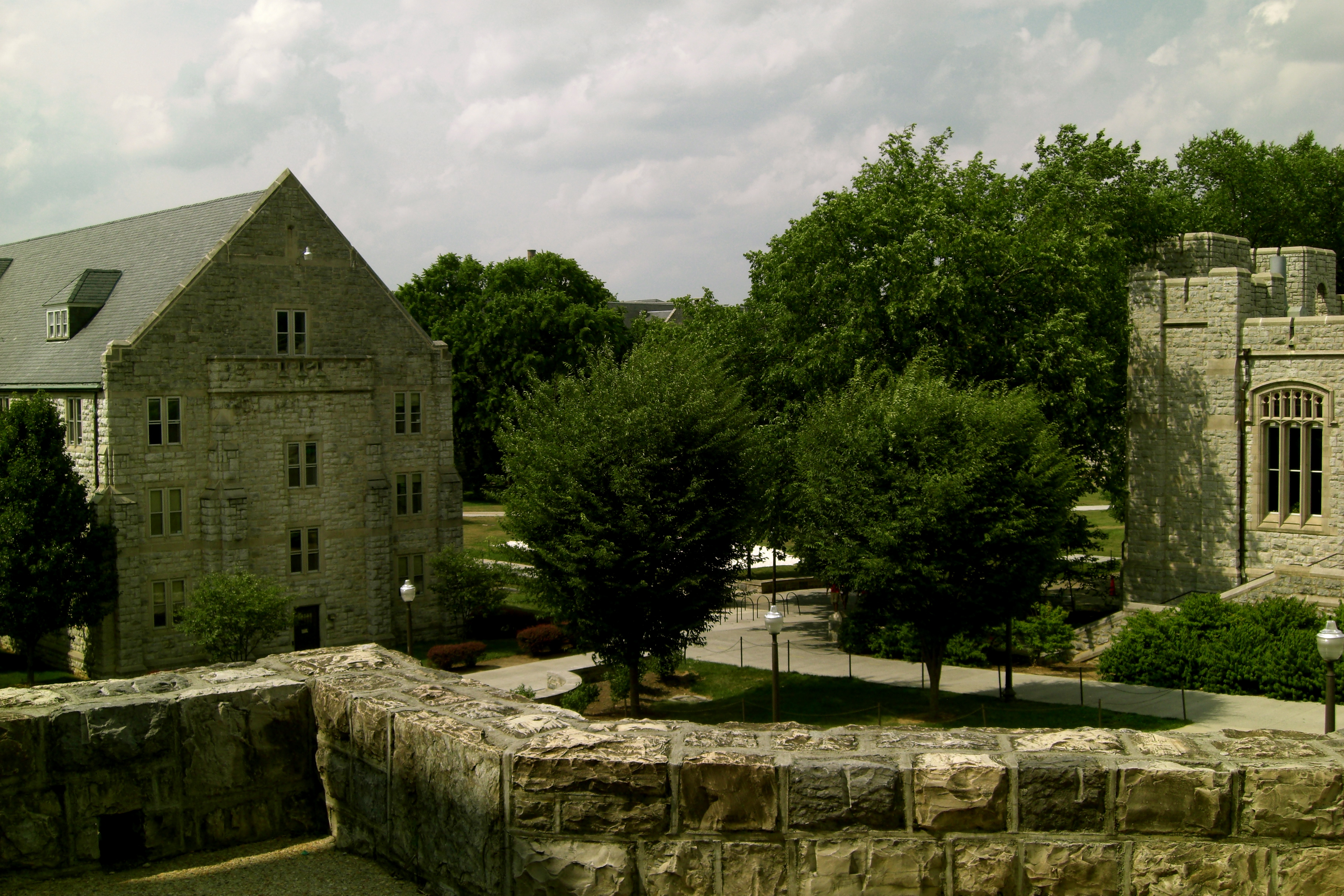 A picture of West Eggleston and Owens halls on the Virginia Tech campus.